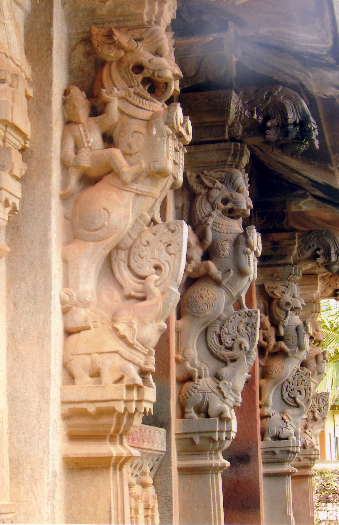 Photographed by self (Dinesh Kannambadi) in Ikkeri at the Aghoreshwara temple (also spelt Aghoreshvara), Shivamogga district, Karnataka, India